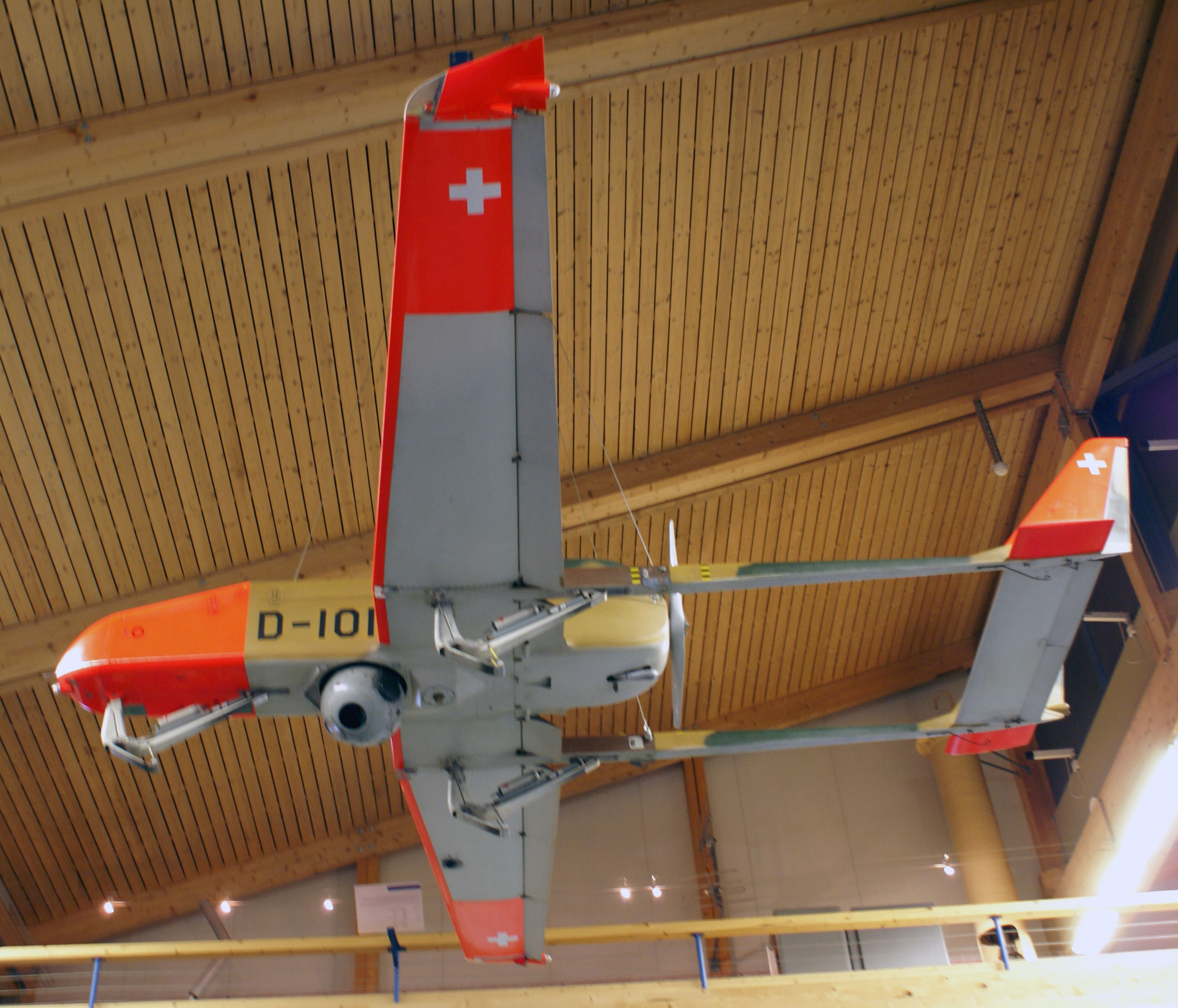 Prototype of the Swiss Air Force's RUAG Ranger (ADS-90) reconnaissance unmanned aerial vehicle.